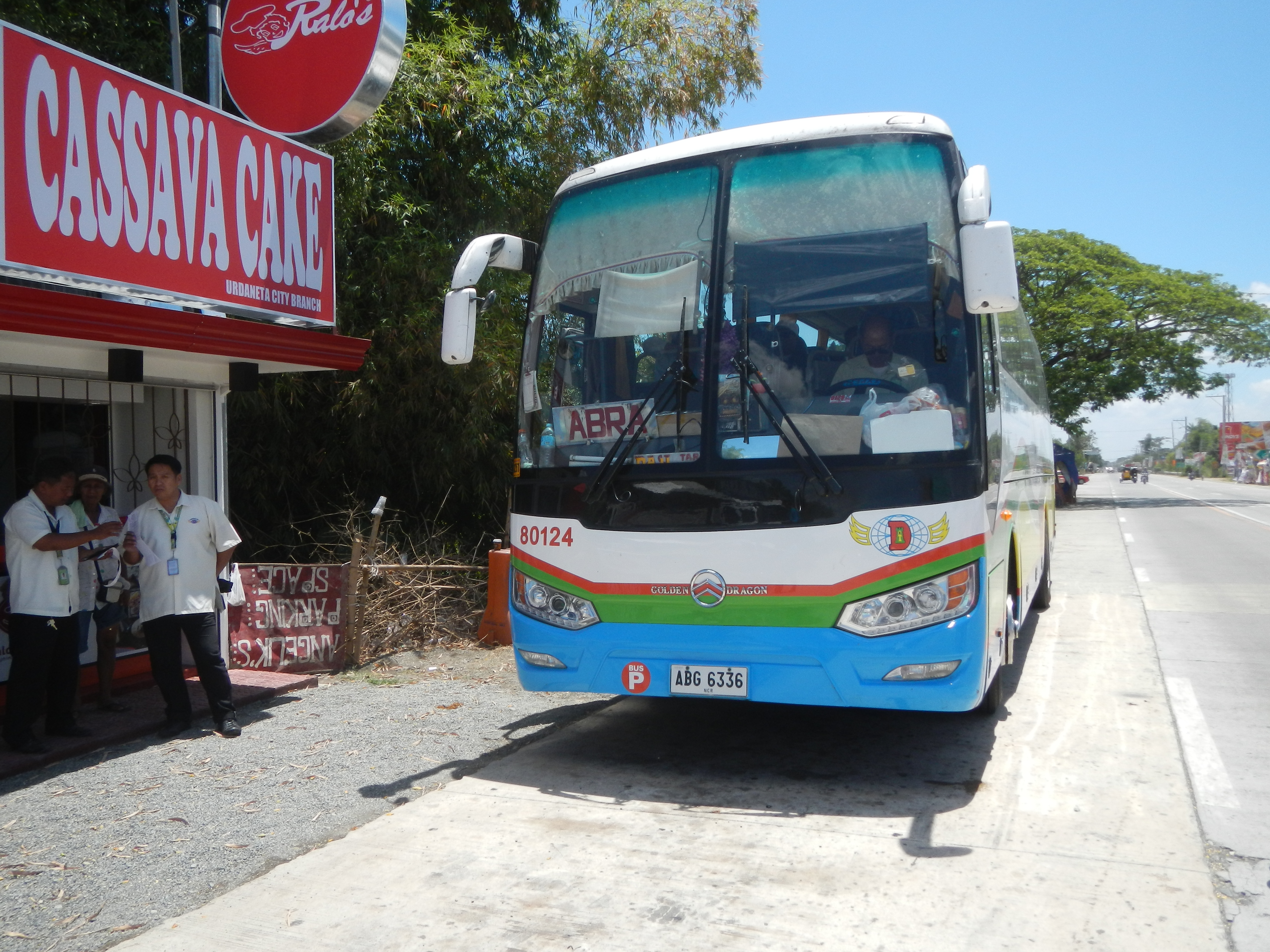 MacArthur Highway (Binalonan, Pangasinan section) of MacArthur Highway or Manila North Road, Dominion Bus Lines in Barangay Poblacion beside Canarvacanan and Linmansangan, Binalonan, Pangasinan, Pangasinan Province interconnecting with K0 190+(-486) - K0 197+760 Binalonan-Asingan-Santa Maria, Pangasinain and along or from K0 190+(-247) - K0 209+707 Mangaldan-Manaoag-Binalonan, Pangasinan Road.